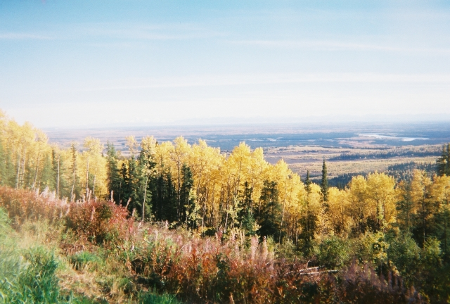 Uploaded by photographer. Taken Summer 2003 on road between Delta Junction and Fairbanks, Alaska.